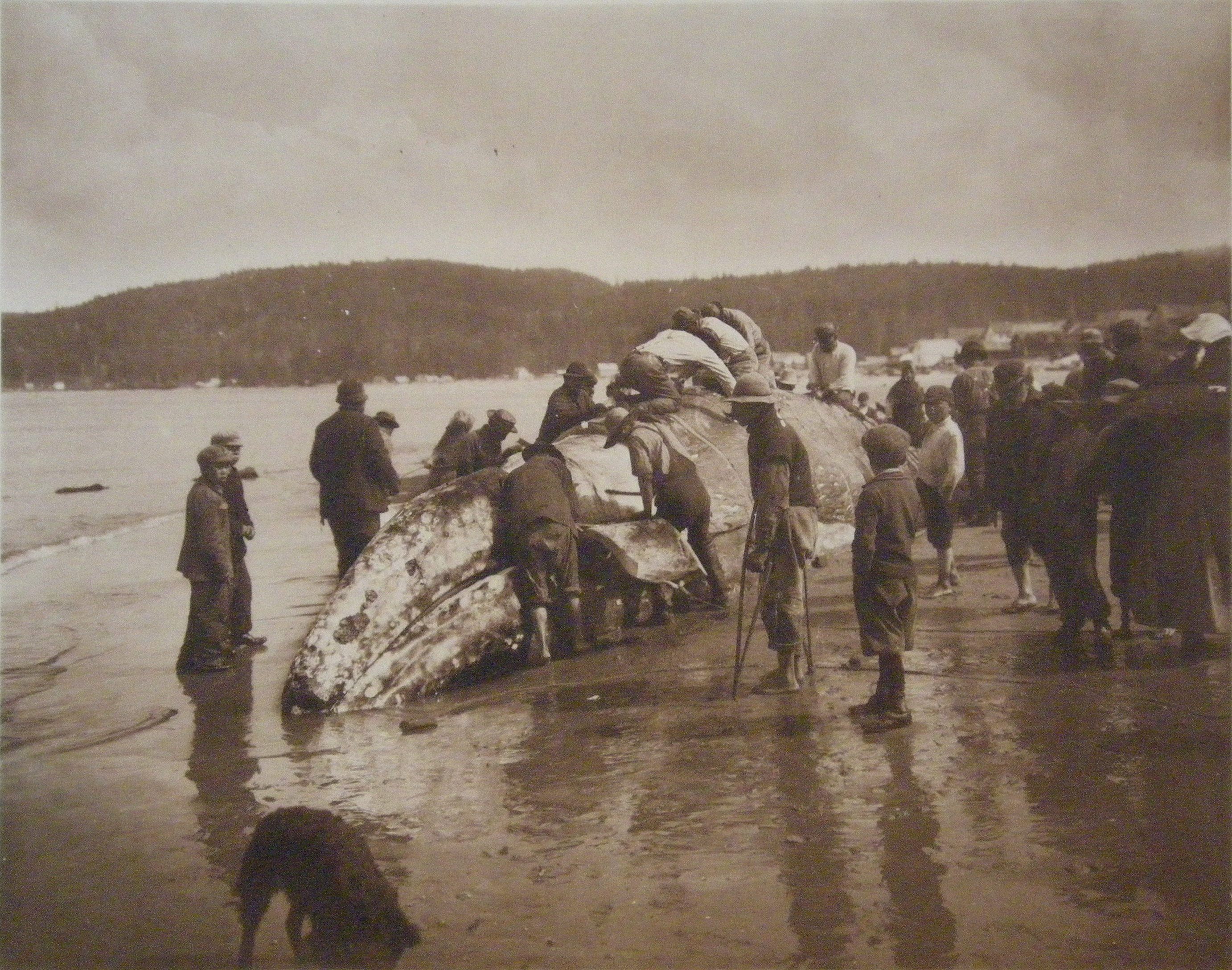 "The King of the Seas in the Hands of the Makahs"; photograph of Makah Indians.